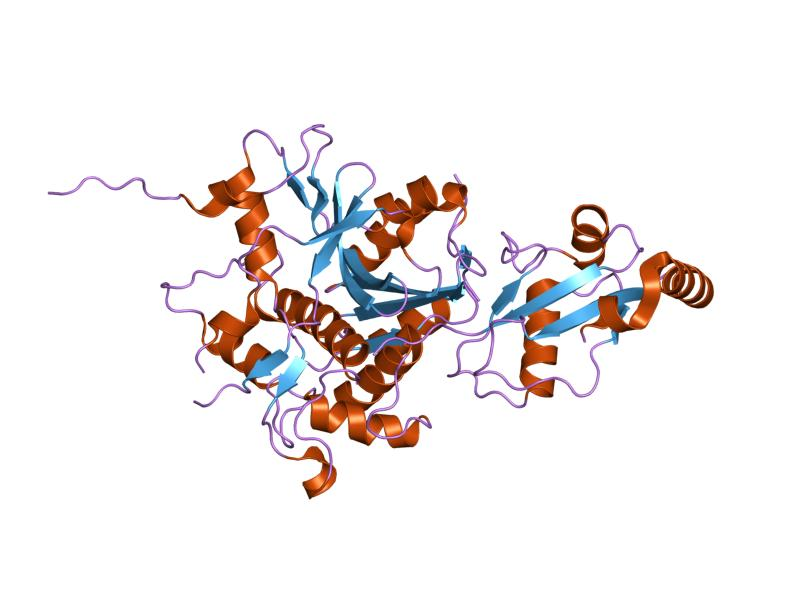 Cartoon representation of the molecular structure of protein registered with 2z0d code.